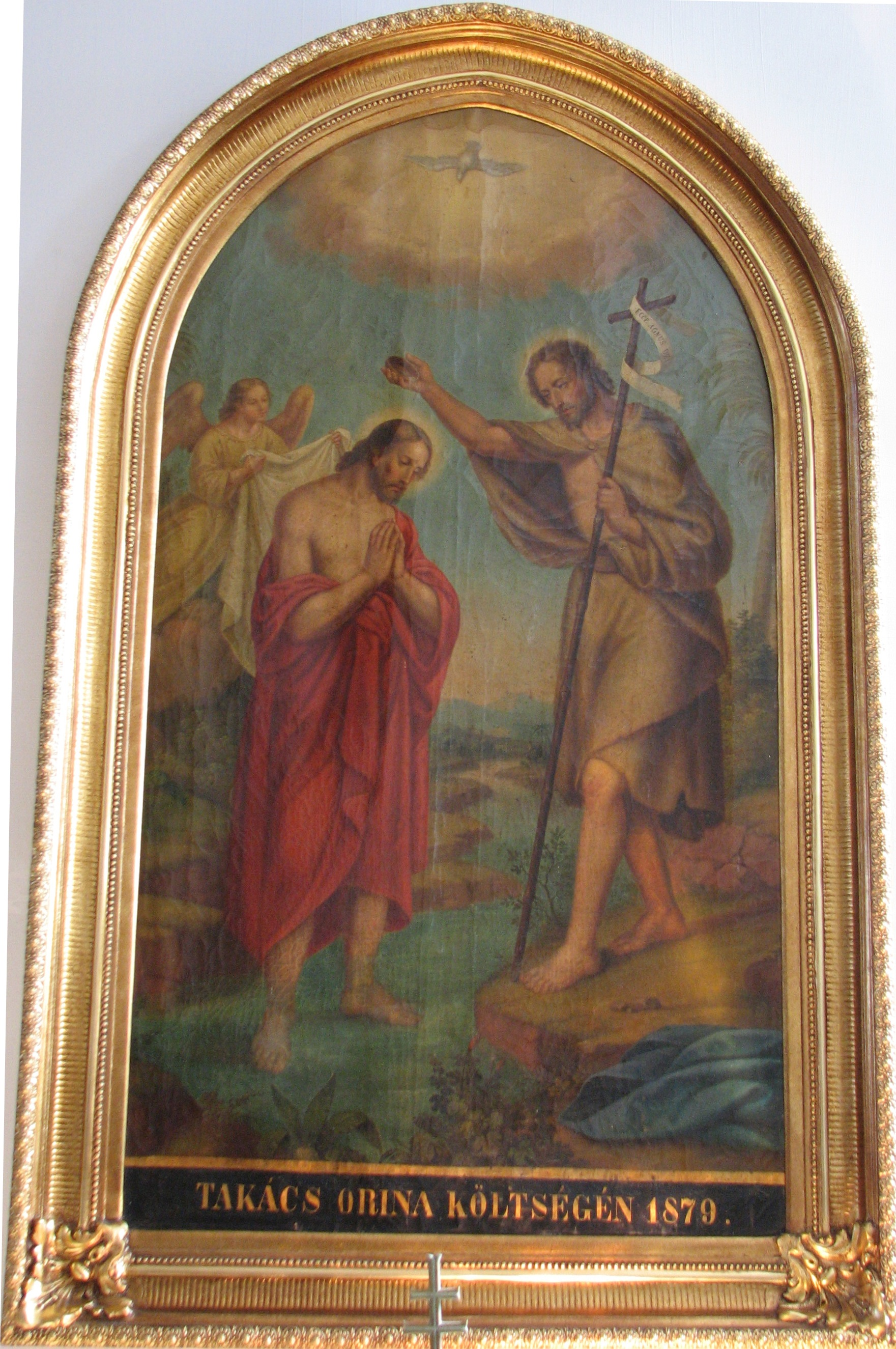 The painting depicts the baptism of Christ and it can be seen in the Greek Catholic Cathedral of Hajdúdorog, Hungary. It hangs behinf the baptising font of the cathedral. As the line in the bottom of the paiting says it was painted in 1879 on the costs of Orina Takács.